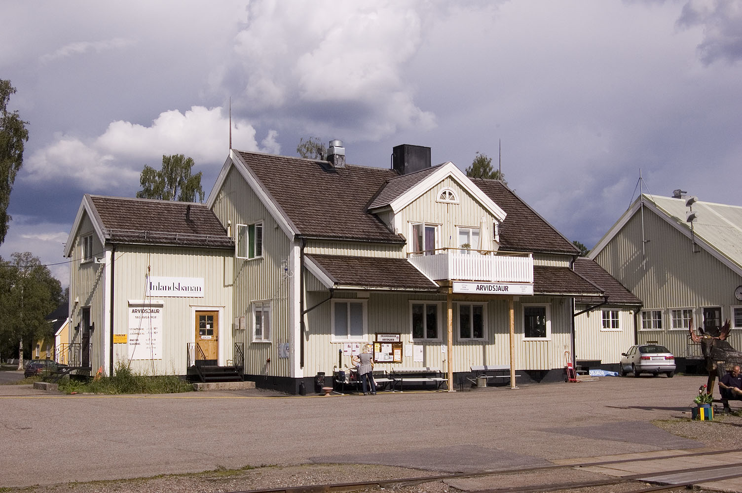 Arvidsjaur railway station, Arvidsjaur, Sweden.